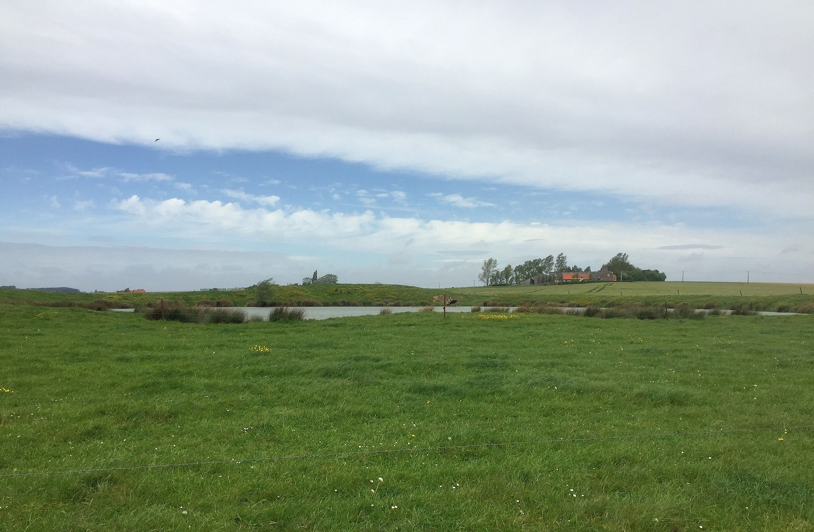 Fields at Messines/Mesen, Belgium: Photo of the the Kruisstraat mine craters between Wijtschate and Wulvergem, facing approx north towards the Spanbroekmolen mine crater